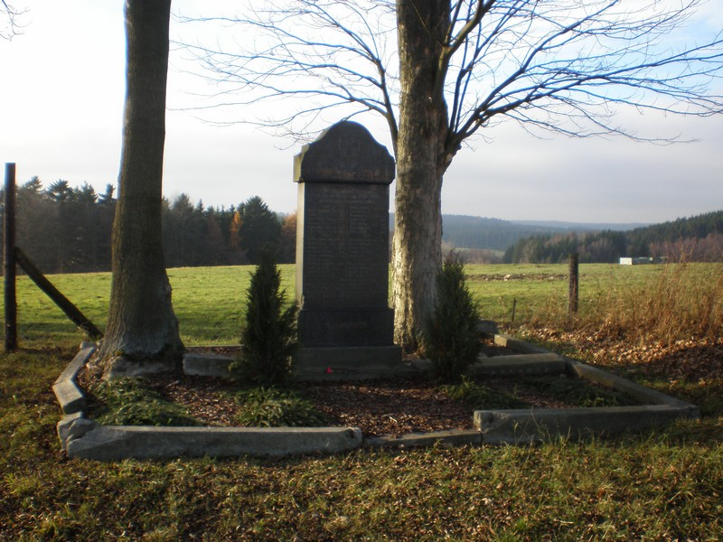 Pastviny (Hranice), Cheb District, Czech Republic; WW1 Memorial